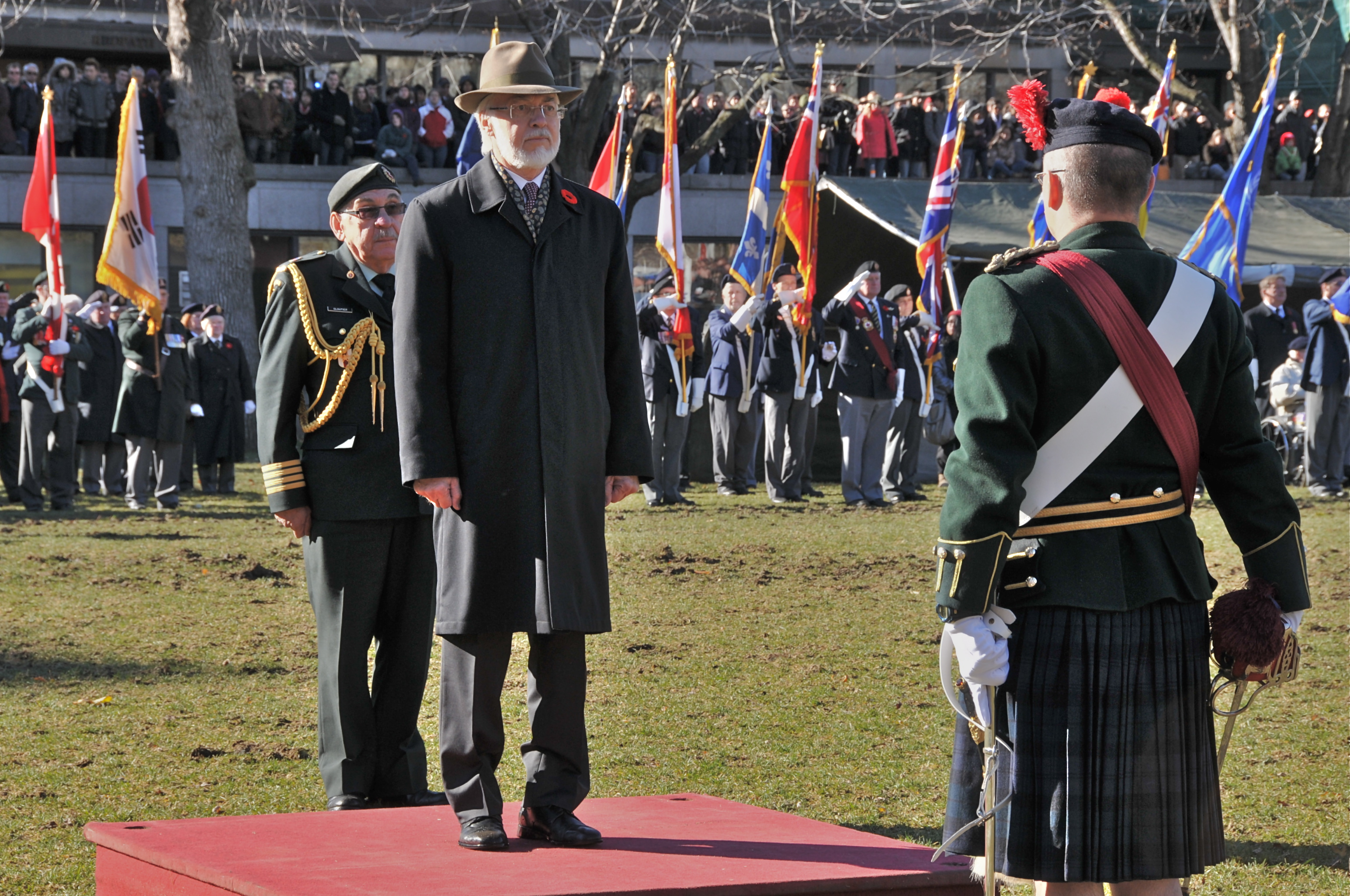 Lieutenant Governor of Quebec, The Honourable Pierre Duchesne receiving vice-regal salute. At lower field of McGill University.